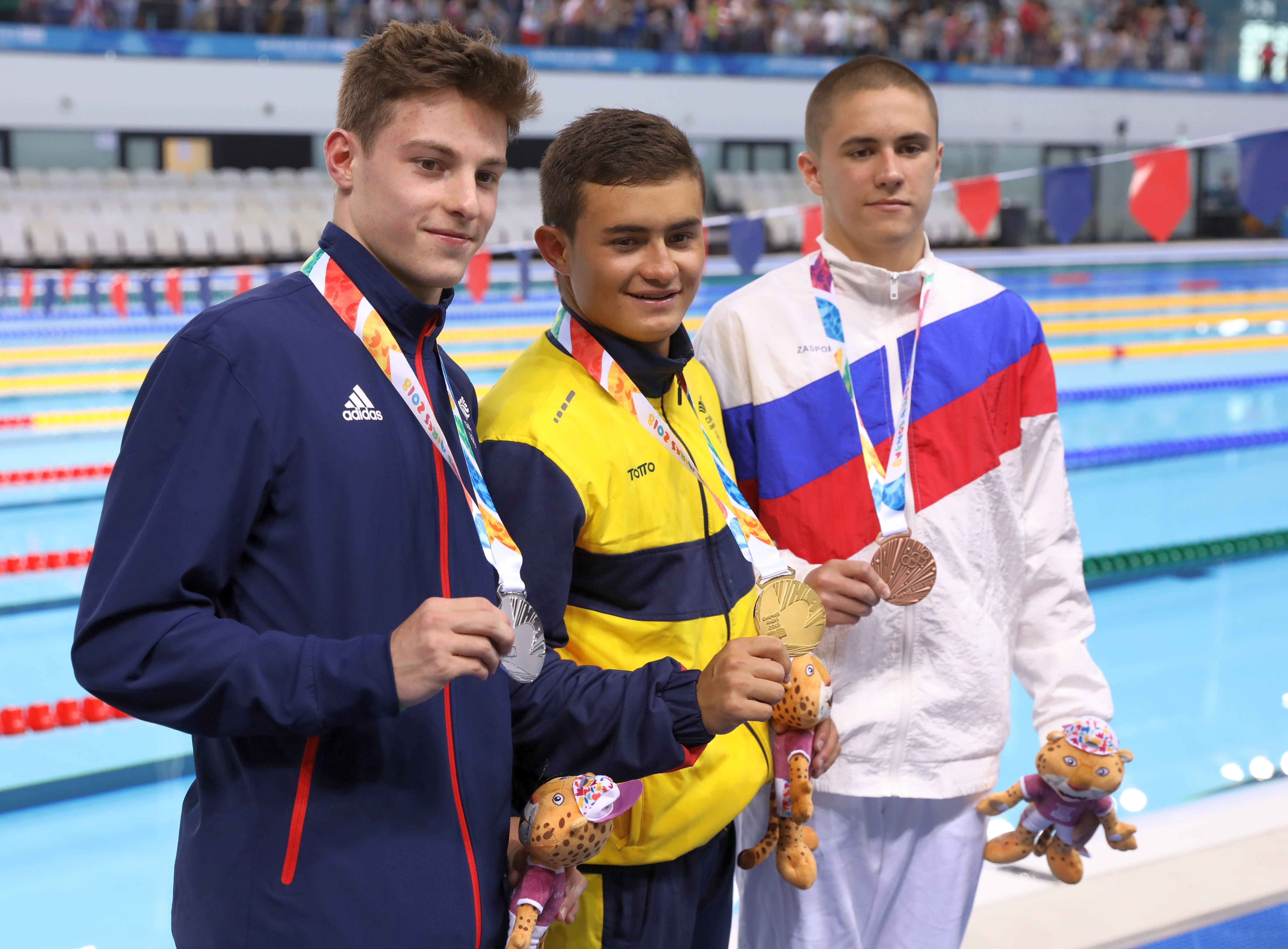 Diving, Boys 3m springboard: Victory ceremony